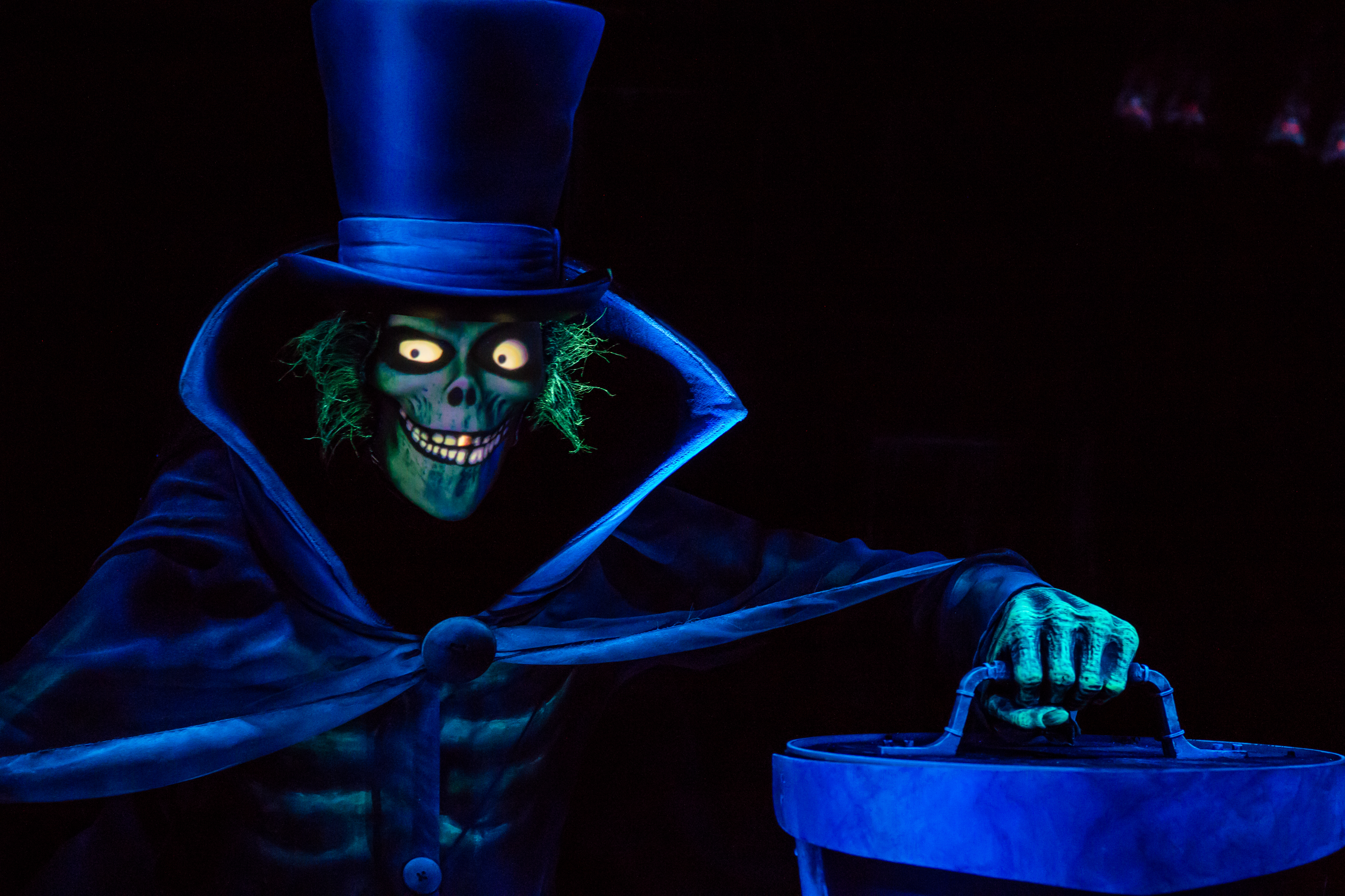 A photo of the Hatbox Ghost figure inside The Haunted Mansion at the Disneyland Resort in Anaheim, California. Added in 2015.